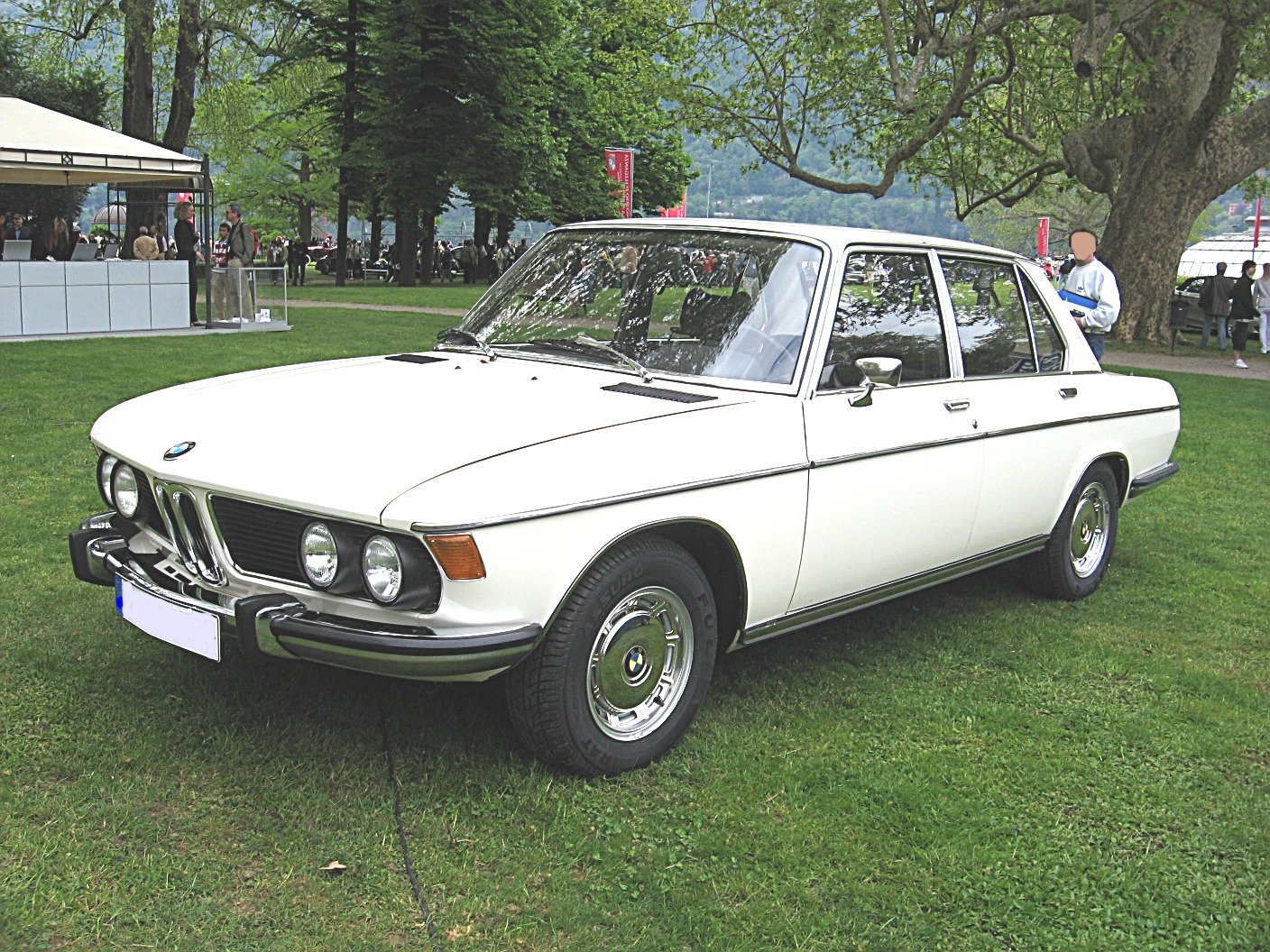 Subject:BMW 3.0 S (E3 model) Date:April 27th, 2008 Event:Concorso d’Eleganza”Villa d’Este” 2008 Place/Country: Cernobbio (CO), Italy I release all rights in the public domain.